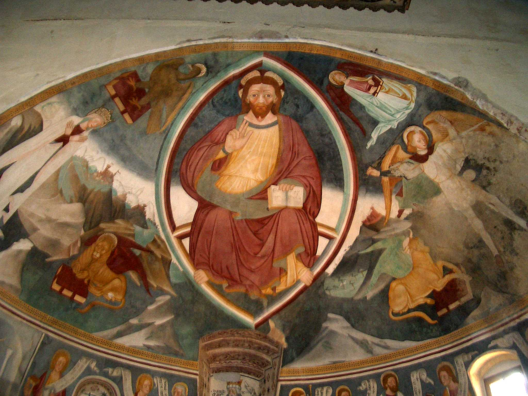 Unknown painter , Fresco of the abse, XV century, Pieve di San Pietro, Volpedo, Alessandria, Italy Church of Saint Peter Native namePieve di San PietroLocationVolpedo, Piedmont, ItalyCoordinates44° 53′ 26.02″ N, 8° 58′ 53.94″ E Authority control : Q3904695 institution QS:P195,Q3904695